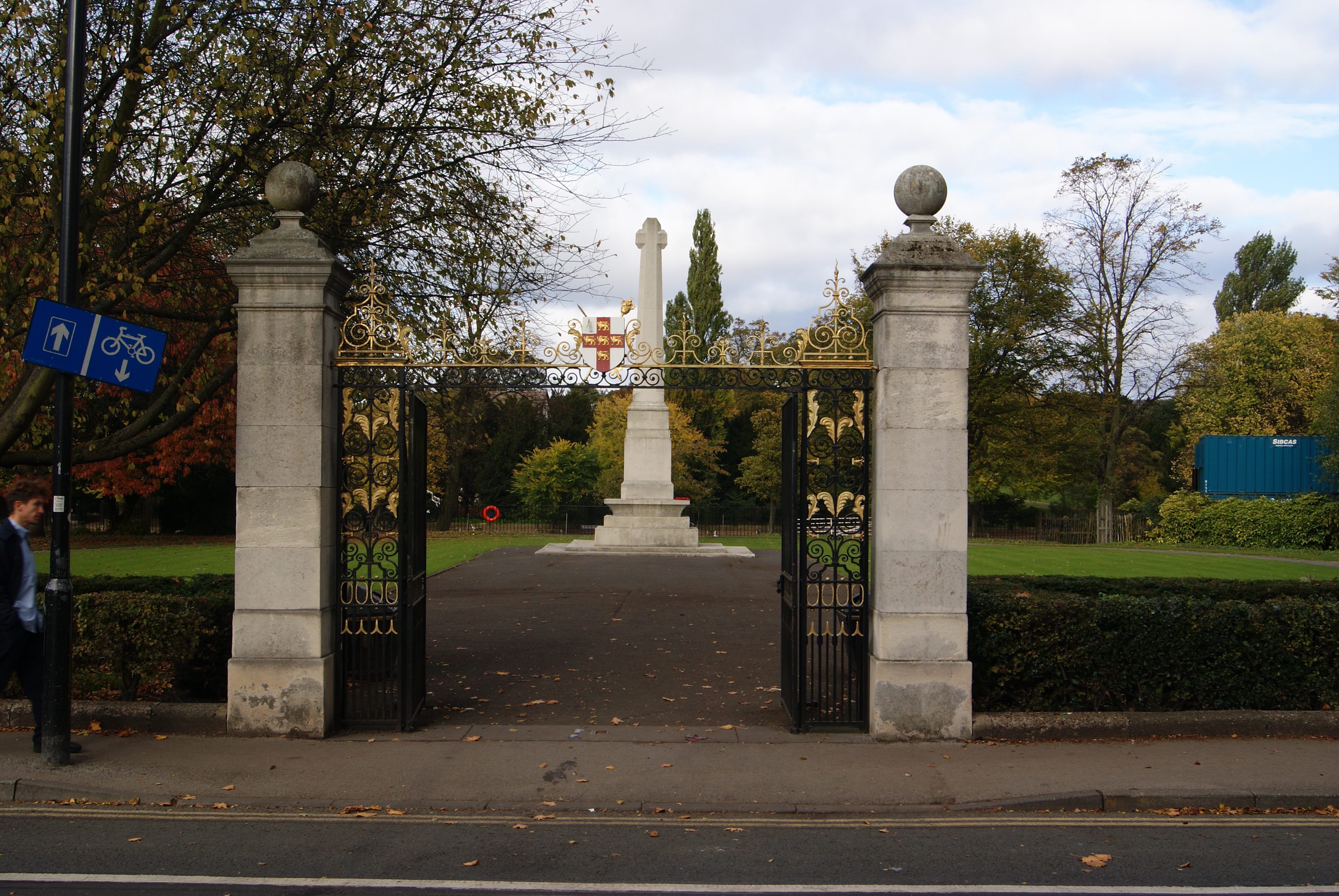 The war memorial on Leeman Road in York, North Yorkshire. Taken on the afternoon of Thursday the 21st of October 2010.